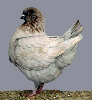 Modena, English (Reduced Bronze)